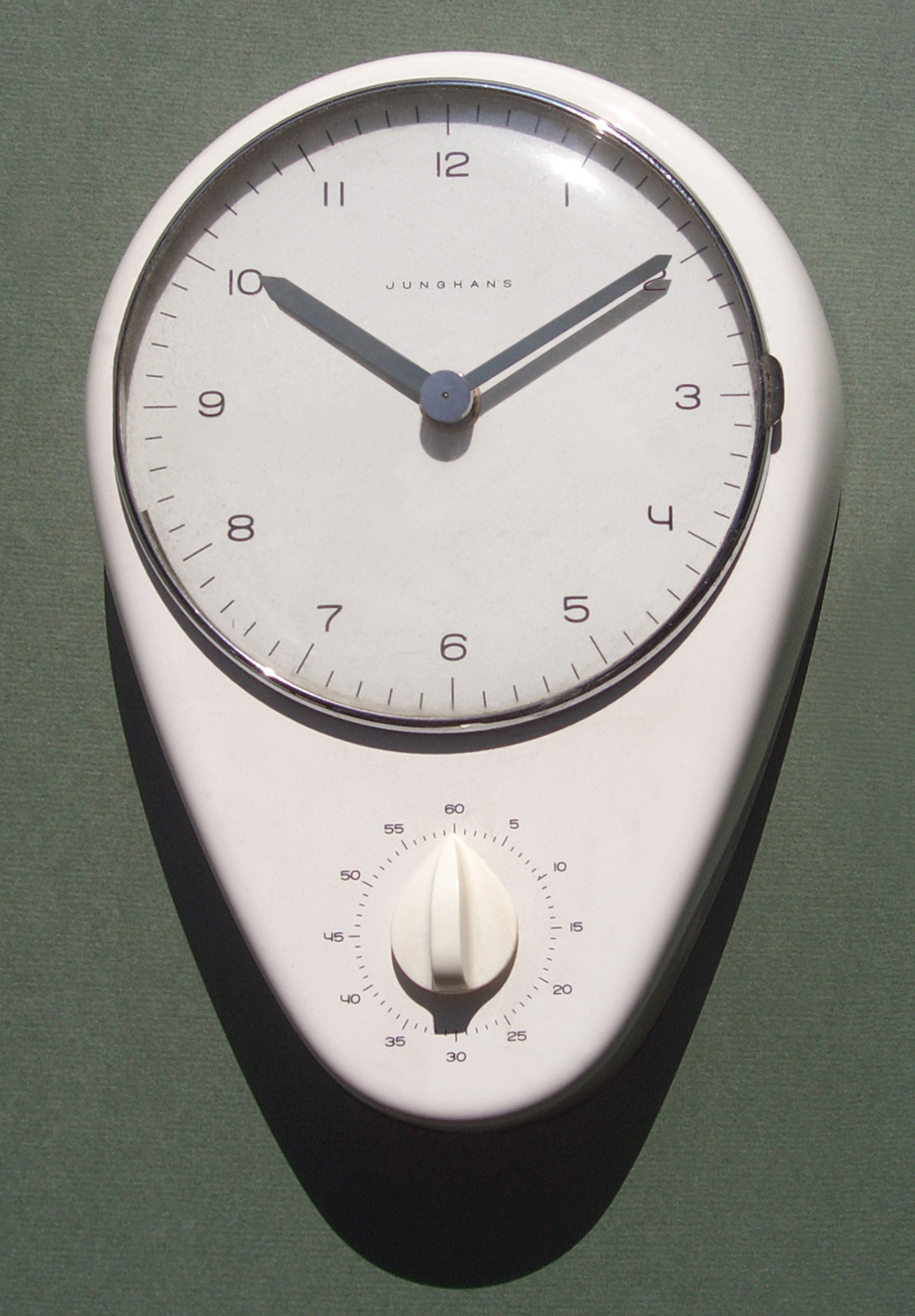 Kitchen clock designed by Max Bill for Junghans